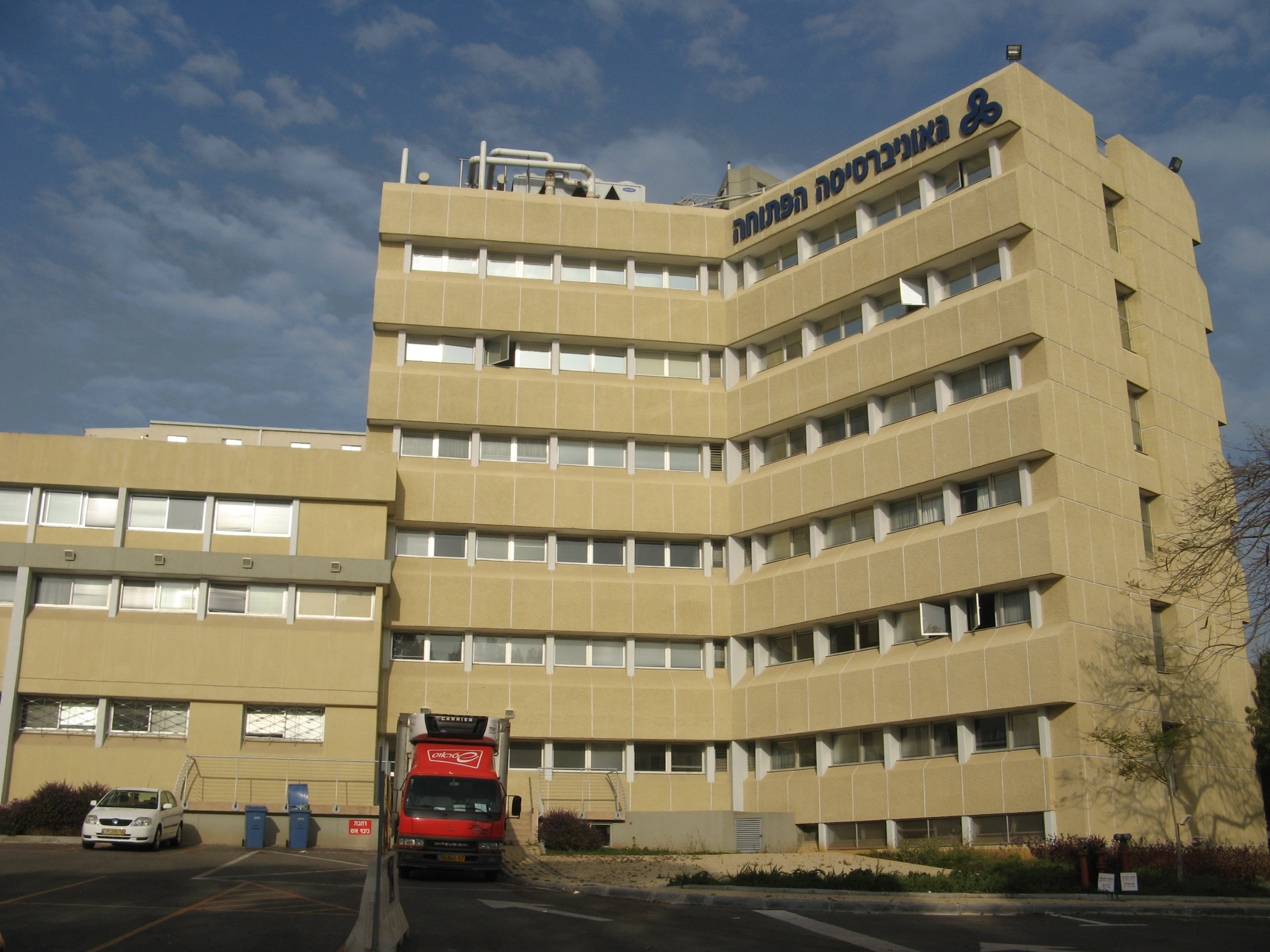 Klauzner open university building from behind